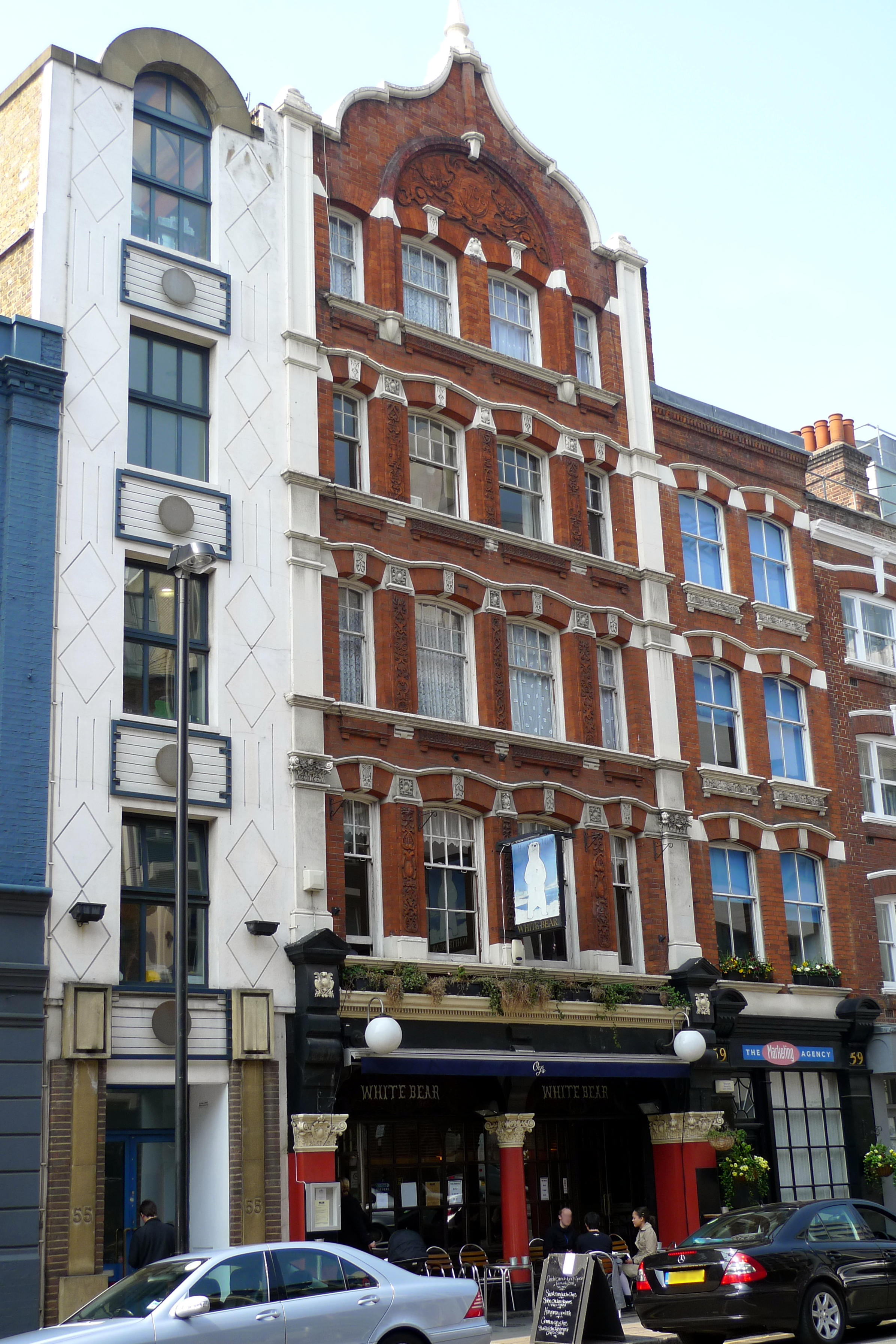 A pub just north of the market. Address: 57 St John Street. Owner: Punch Taverns; Charrington (former). Links: London Pubology